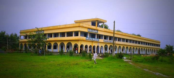 Art & BBA Block of Nirsu Narayan College,Singhara